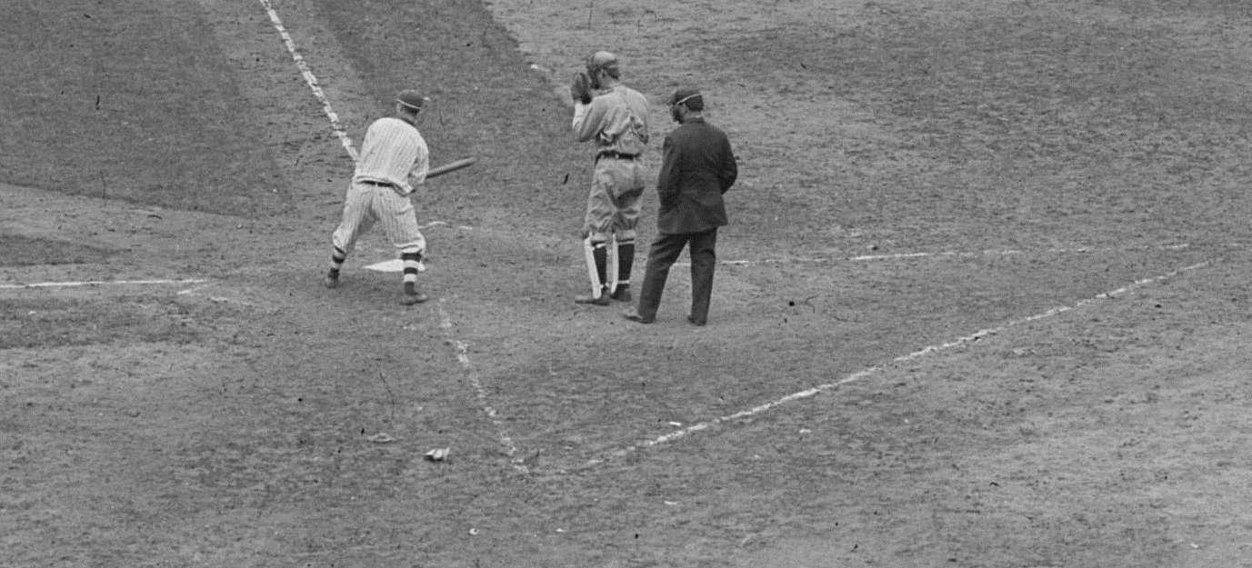 This is a cropped version of :Ray_Caldwell_pitching_in_the_first_game_at_Ebbets_Field,_April_5,_1913.